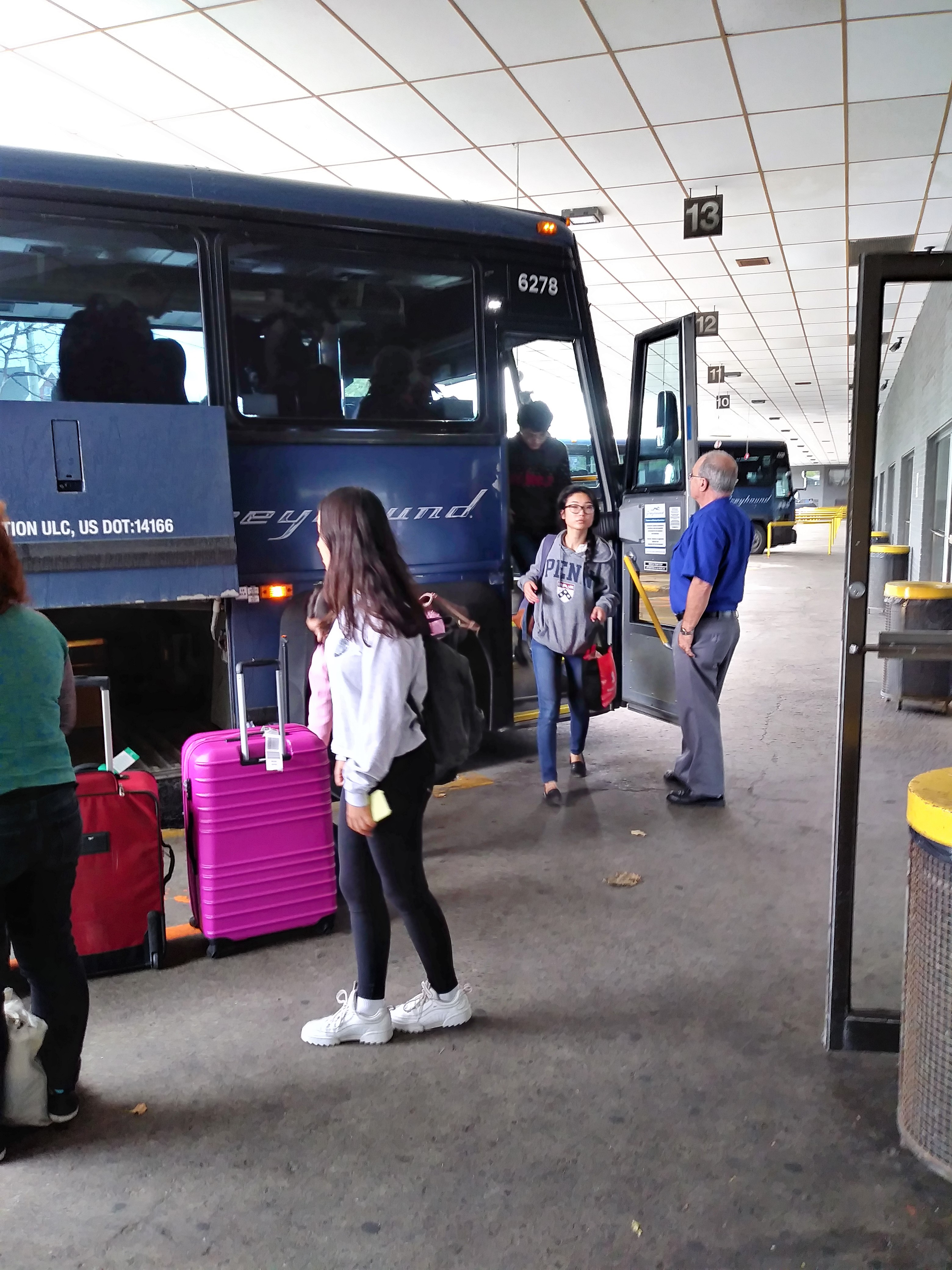 Greyhound bus, Ottawa Central Station, 265 Catherine Street, Ottawa